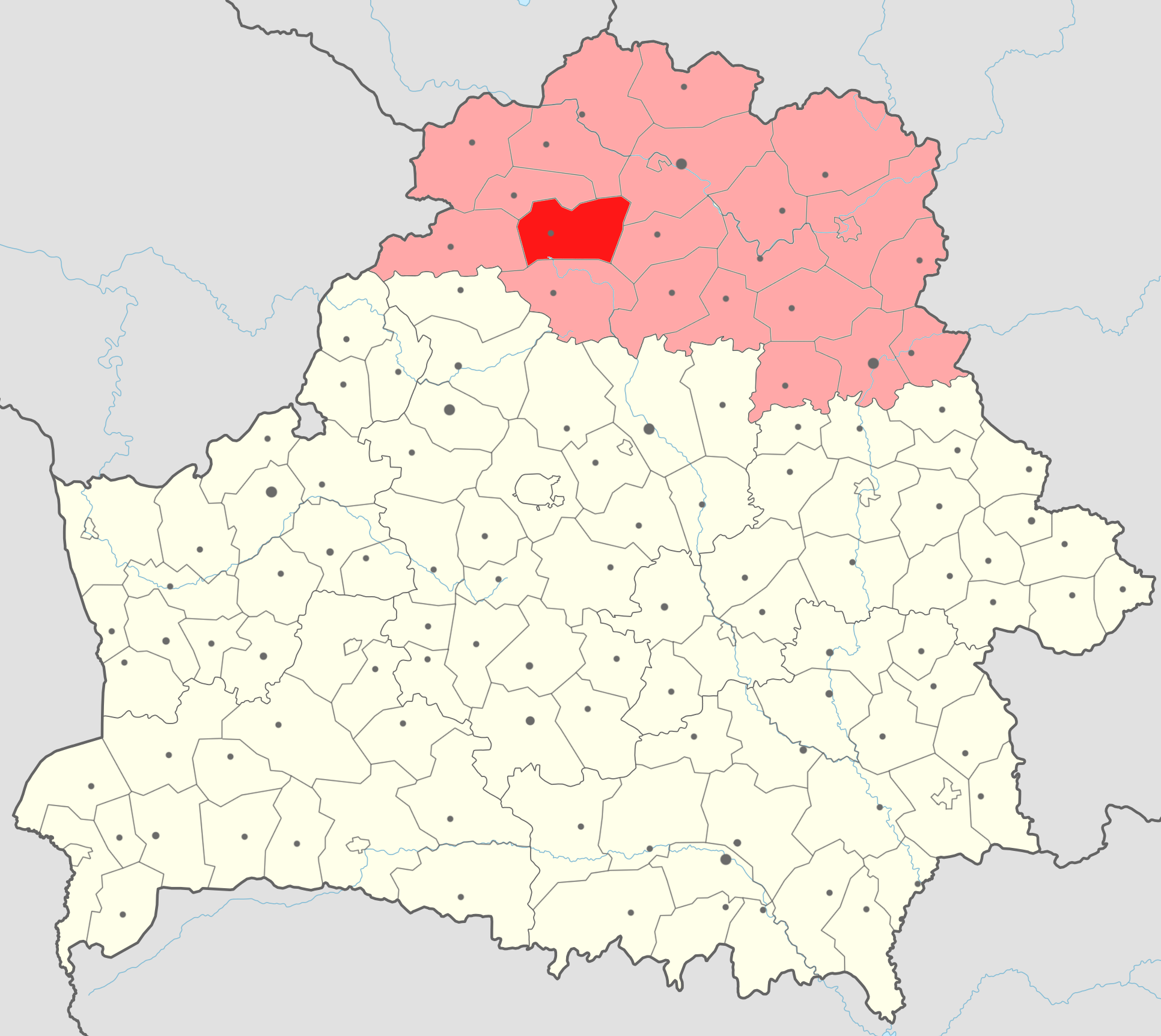 Map of Hlubocki raion (in red) with Viciebskaja voblast' (in light red) on the map of Belarus.